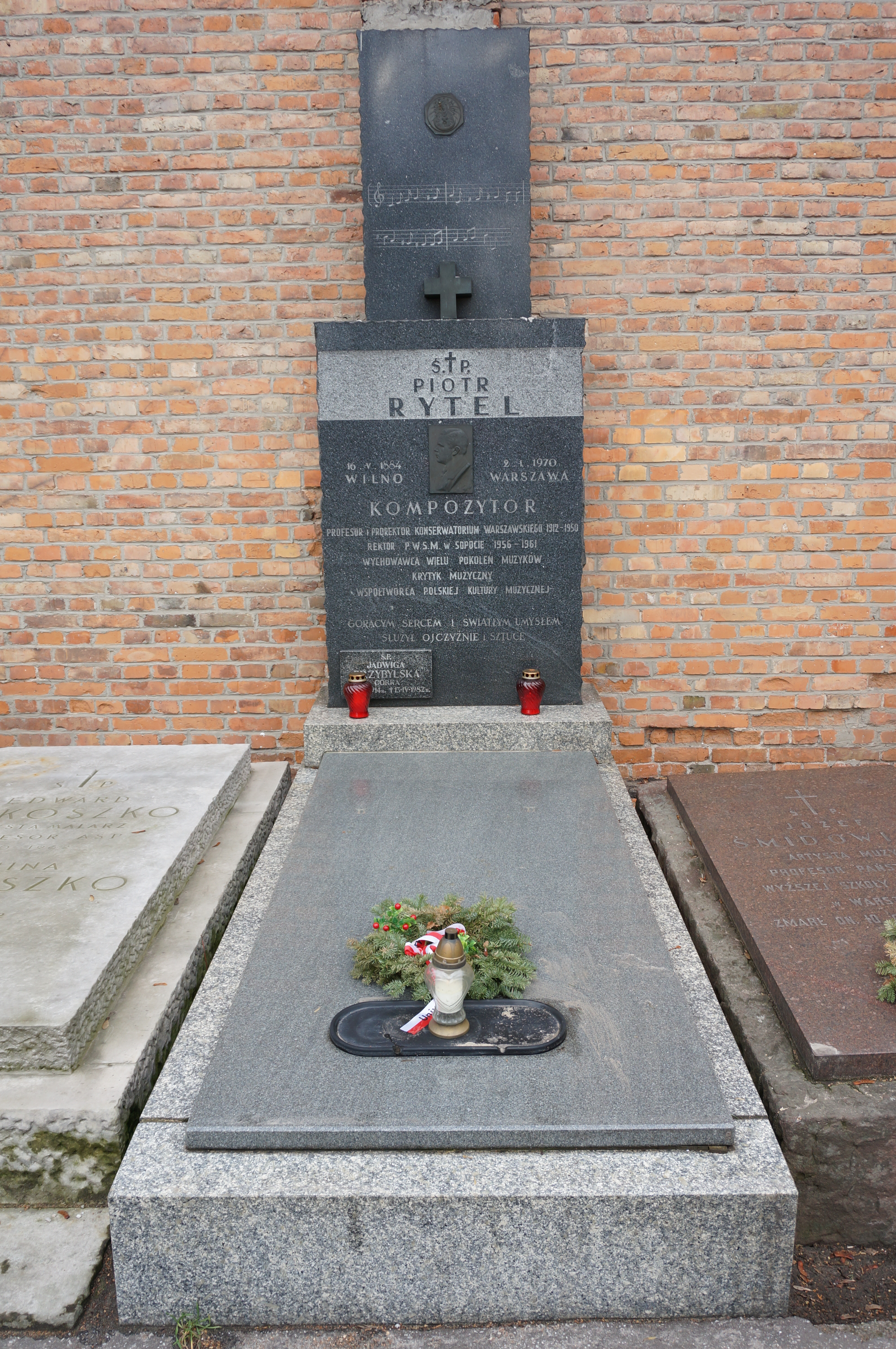 The grave of Piotr Rytel at the Powązki Cemetery (Avenue of Deserved, grave 119)